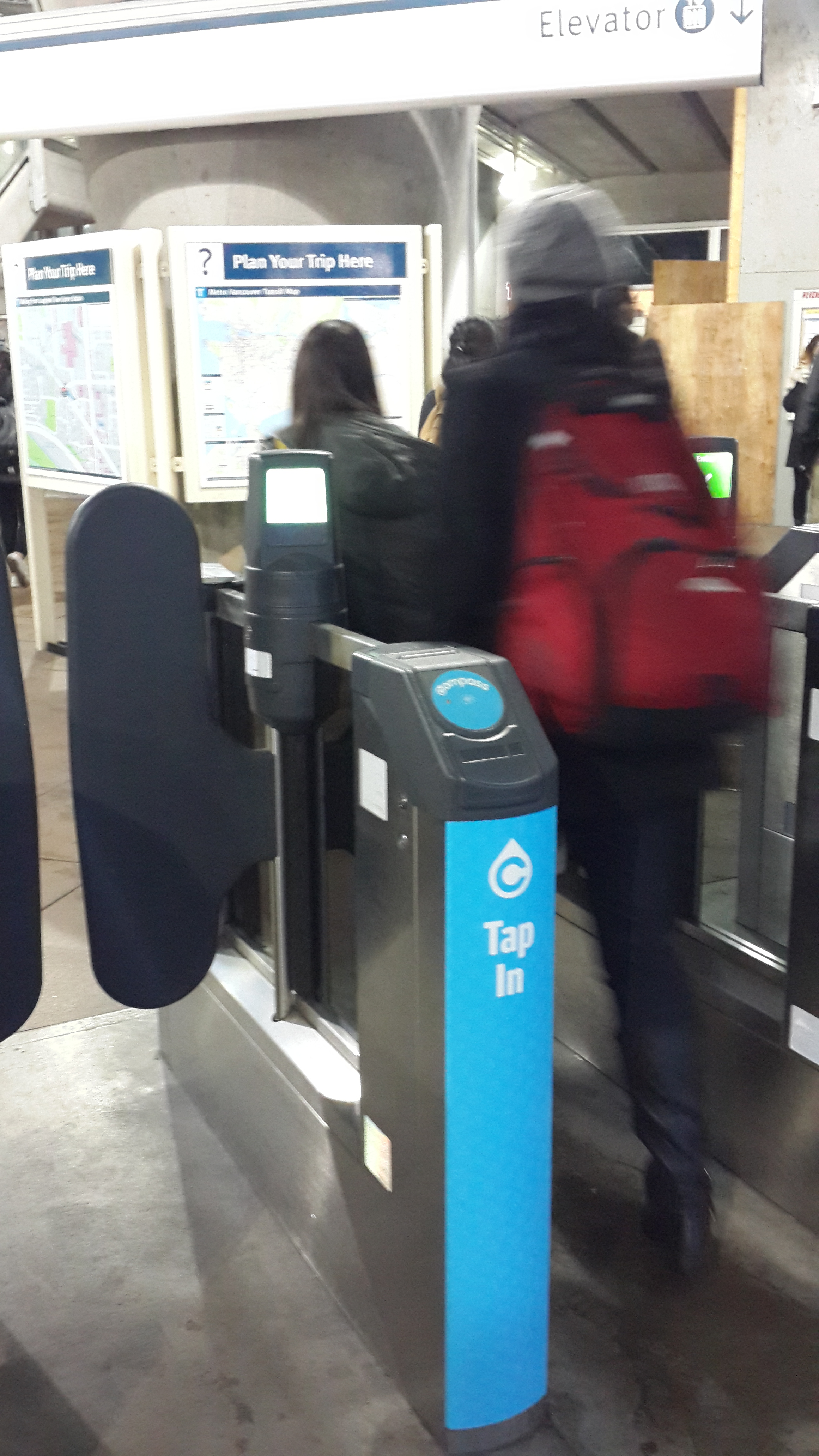 The Compass Flapping Gate is at Lougheed Town Center Station 中文（中国大陆）: 位于铁道镇站入口处的康百世卡售票机